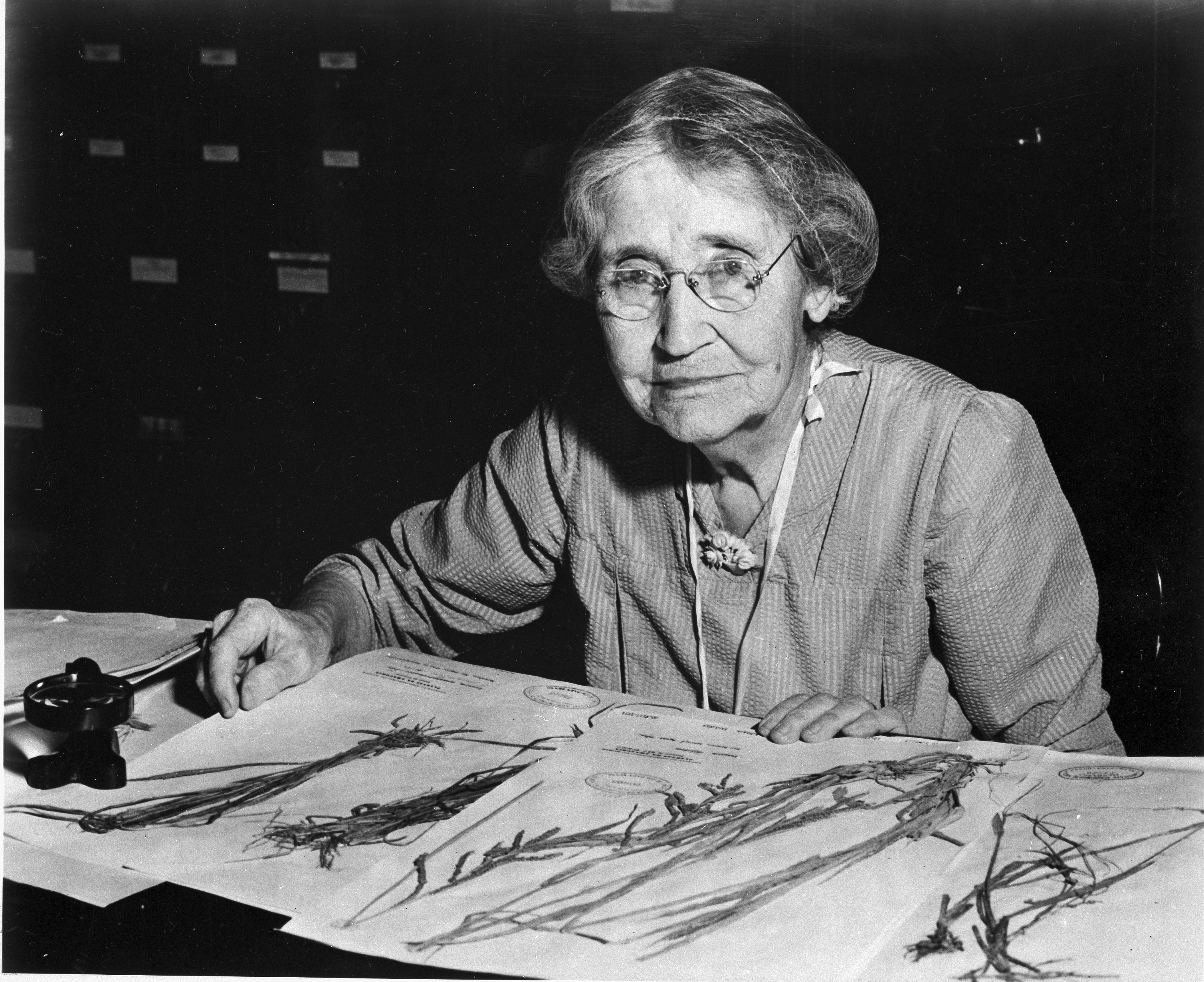 Description: Mary Agnes Chase (1869-1963) specialized in the study of grasses and conducted extensive field work in South America, often personally funding her research trips, as it was considered inappropriate for women to conduct such work. Chase joined the Department of Agriculture in 1903 as a botanical illustrator and eventually became Scientific Assistant in Systematic Agrostology, 1907; Assistant Botanist, 1923; and Associate Botanist, 1925. In 1935, became Principal Botanist in charge of Systematic Agrostology and Custodian of the Section of Grasses, Division of Plants, United States National Museum. Creator/Photographer: Unidentified photographer Medium: Black and white photographic print Date: c. 1960 Persistent URL: [1] Repository: Smithsonian Institution Archives Accession number: SIA2009-0712